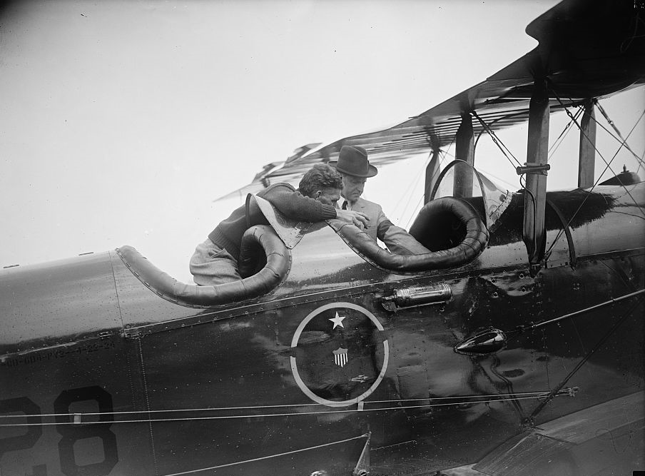 Coolidge inspecting world flight plane at Bowling [i.e., Bolling] Field, [Washington, D.C.], 9/9/24